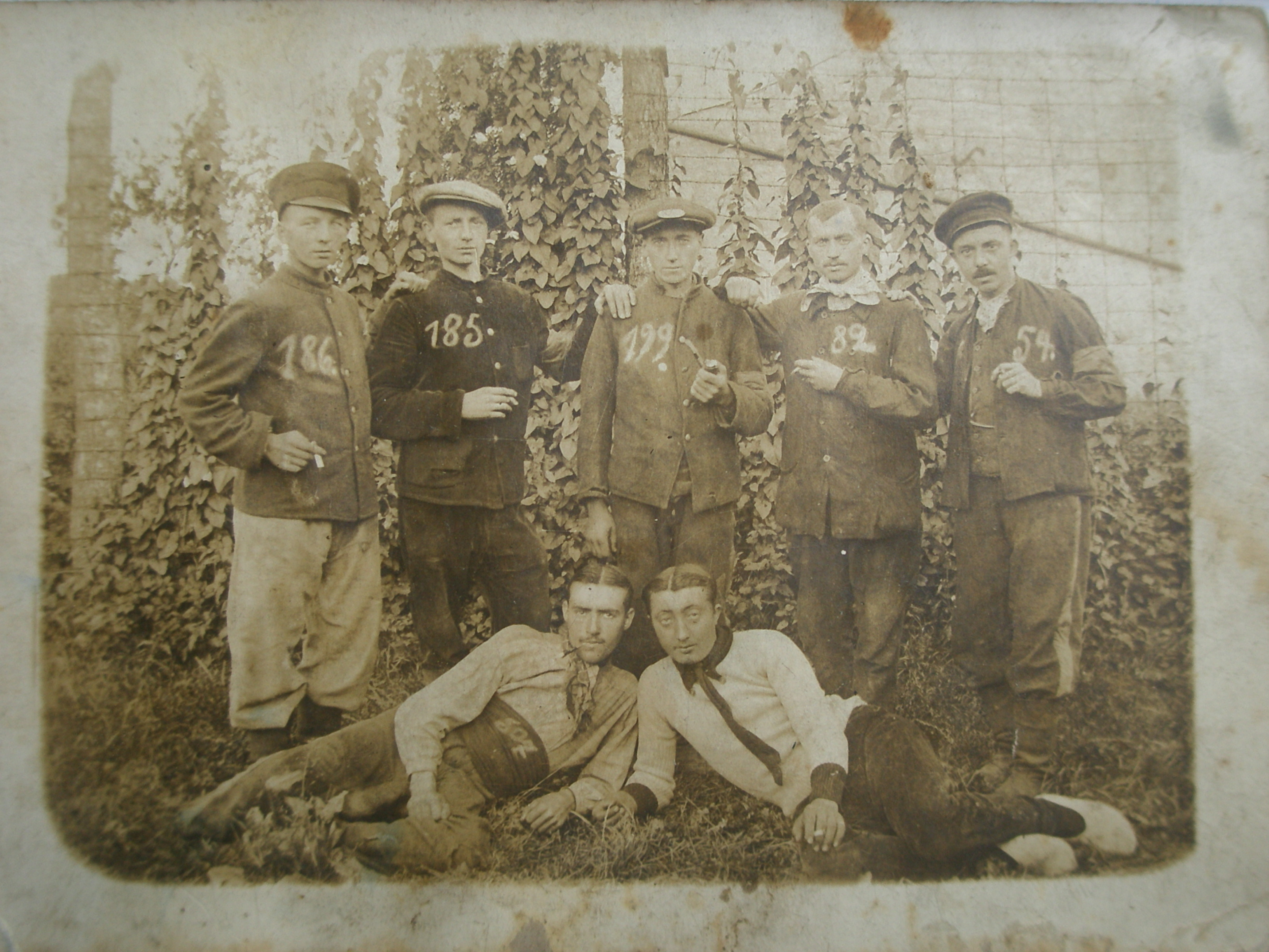 Picture of forced workers during German occupation of Deerlijk, Belgium